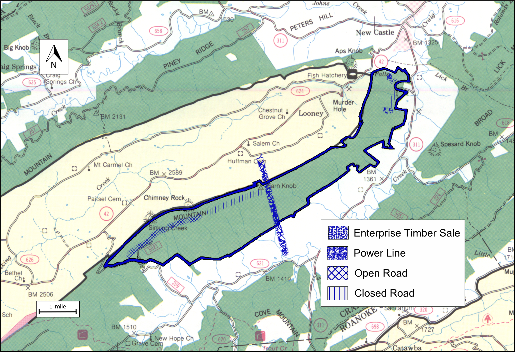 Boundary of the Sinking Creek Mountain wildarea as identified by the Wilderness Society